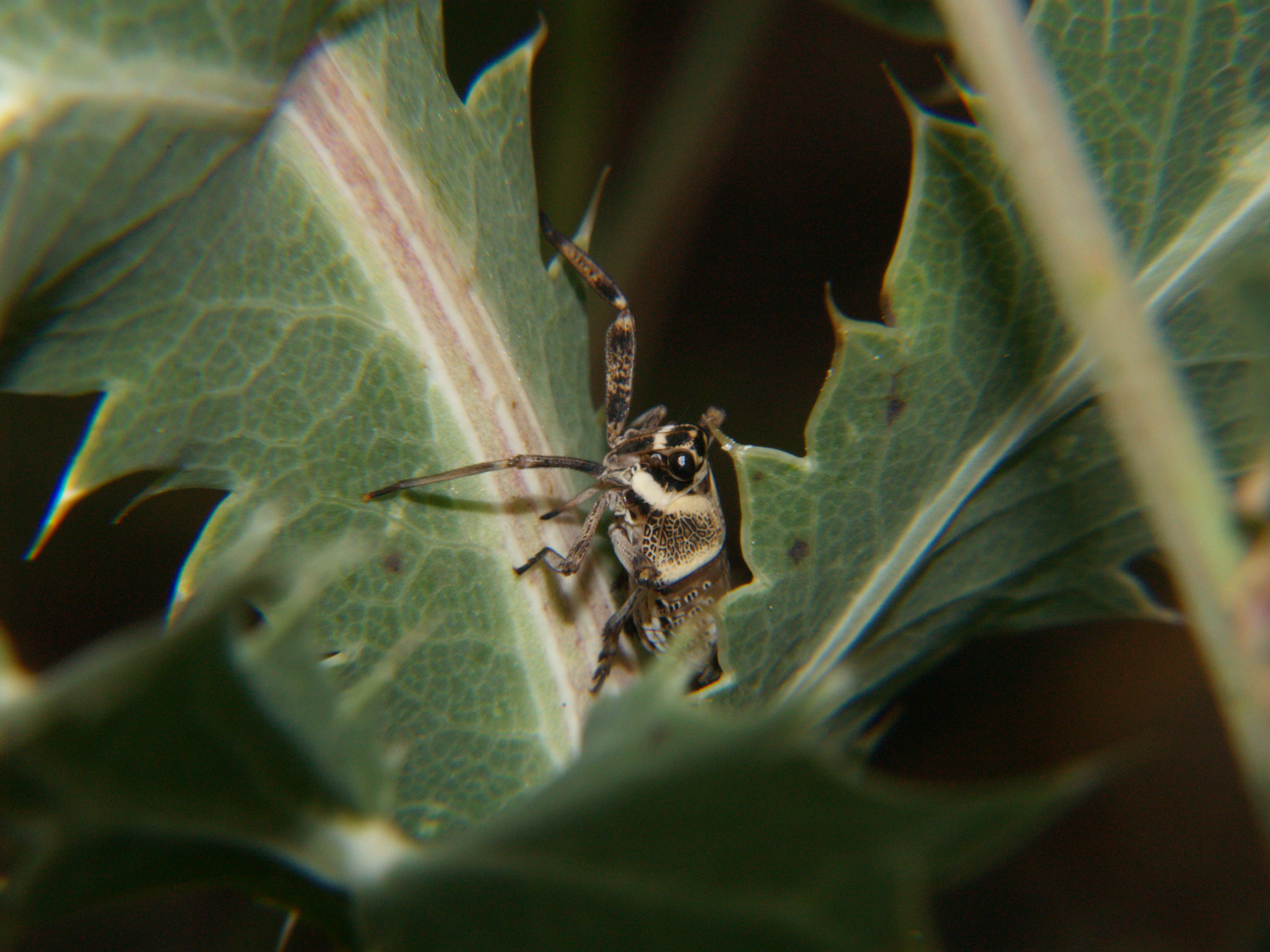 Dictyopharidae, Orgeriinae, Parorgerius platypus (Fieber, 1966)